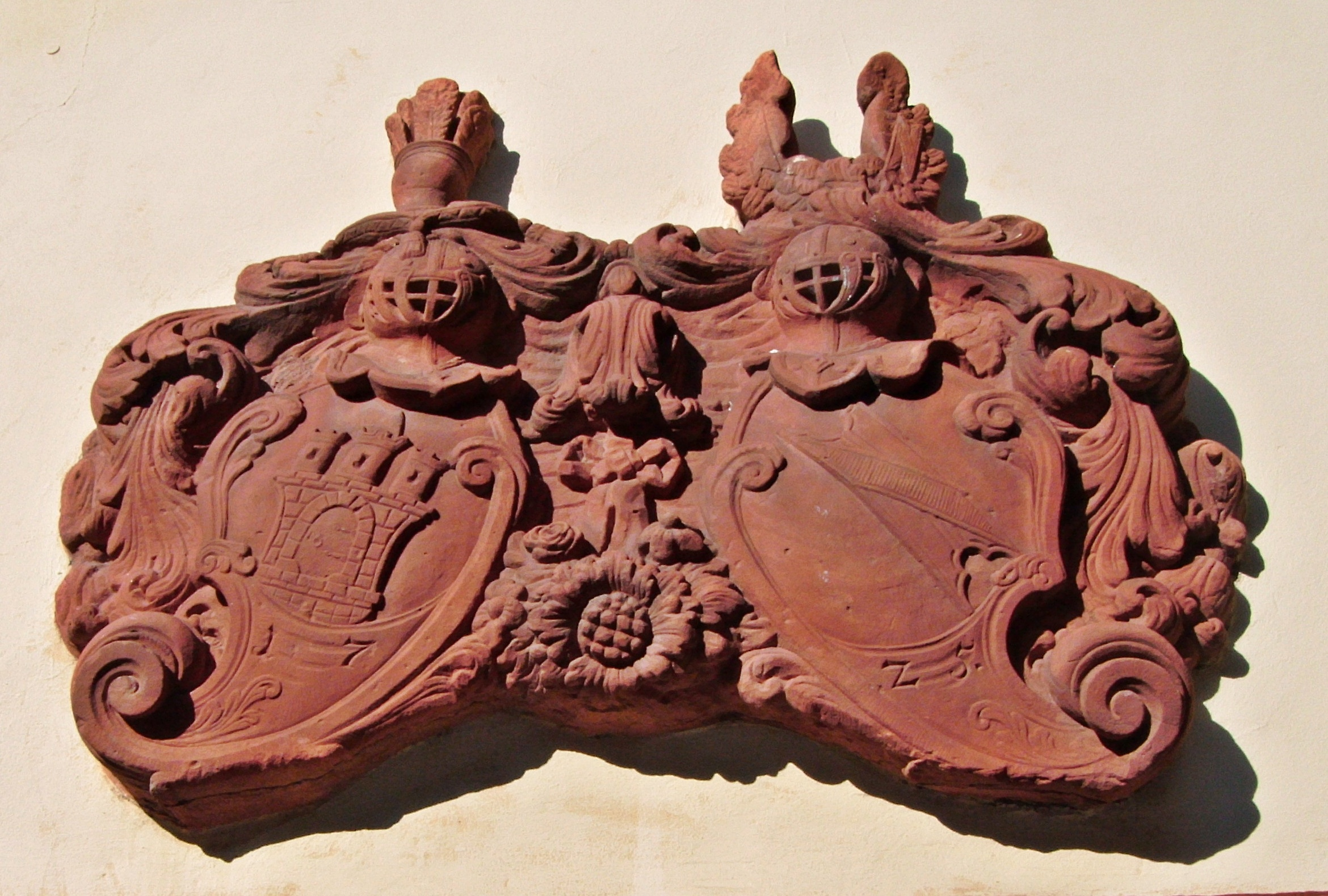 Allianzwappen Ulner von Dieburg und Haxthausen, Weinheimer Schloss